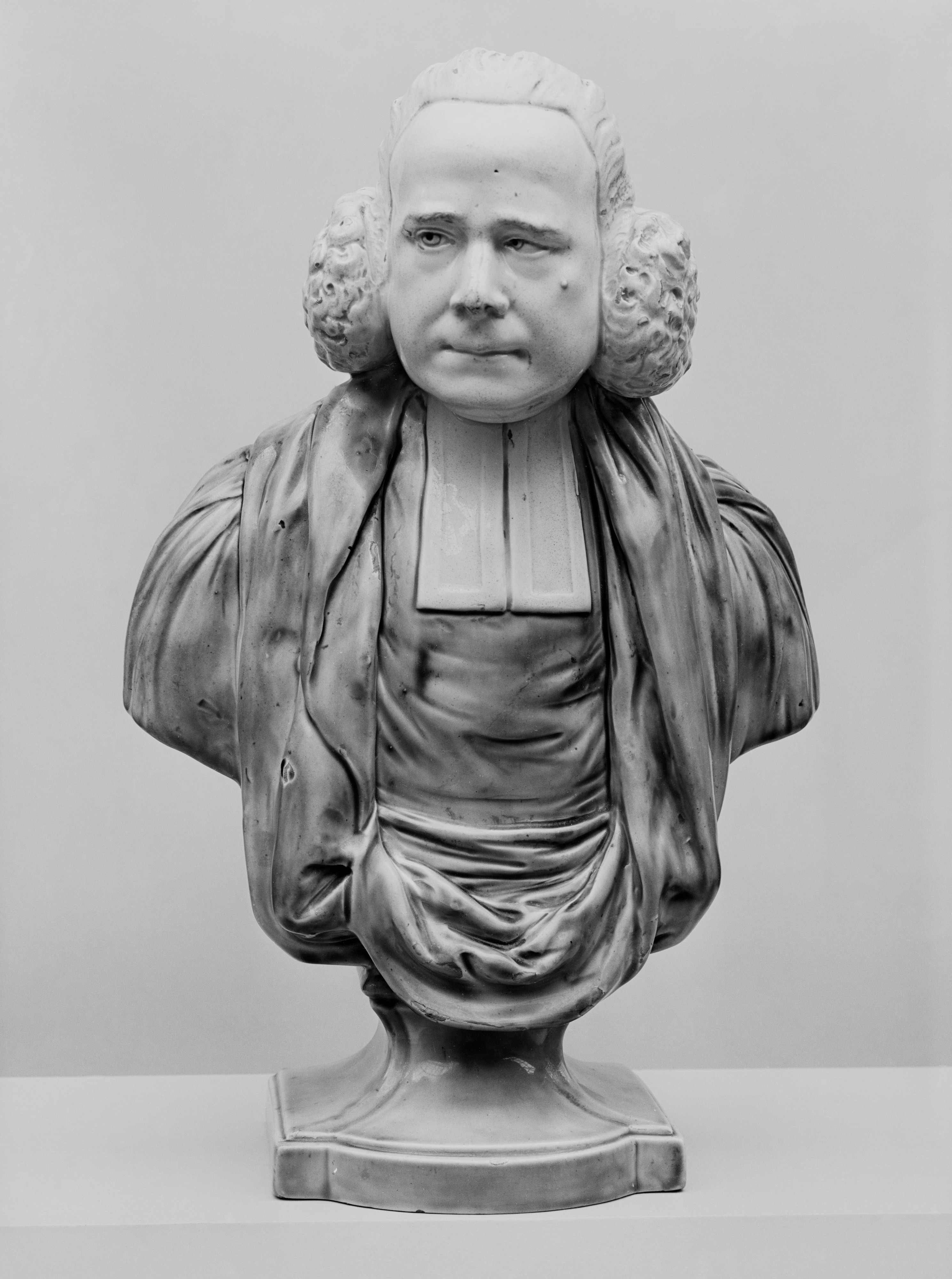 British, Burslem, Staffordshire; Bust; Ceramics-Pottery